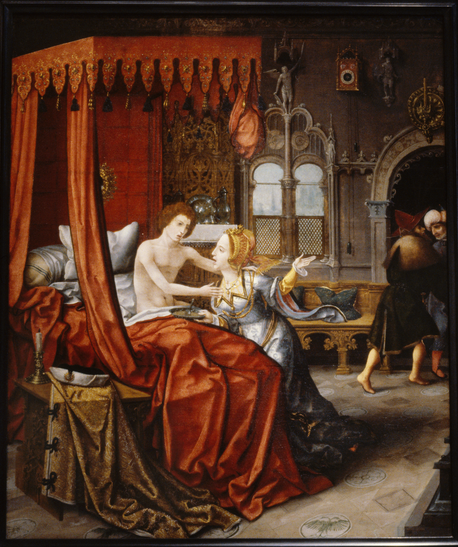 King David's son Amnon pretended to be sick, and, when his half-sister Tamar came to visit him, he treacherously raped her (2 Samuel). Later, once the athletic ideal of classical antiquity and contemporary Italian art had been absorbed in the Netherlands, painters would typically depict such threatening male figures with far more muscular builds. Setting the scene in a 16th-century bedroom with beautiful furnishings, including a wall clock (rare and expensive at this time) implied that the biblical stories remained current. The rich surface details and elaborate play of folds are typical of the prevailing style in Antwerp around 1515 to 1525.